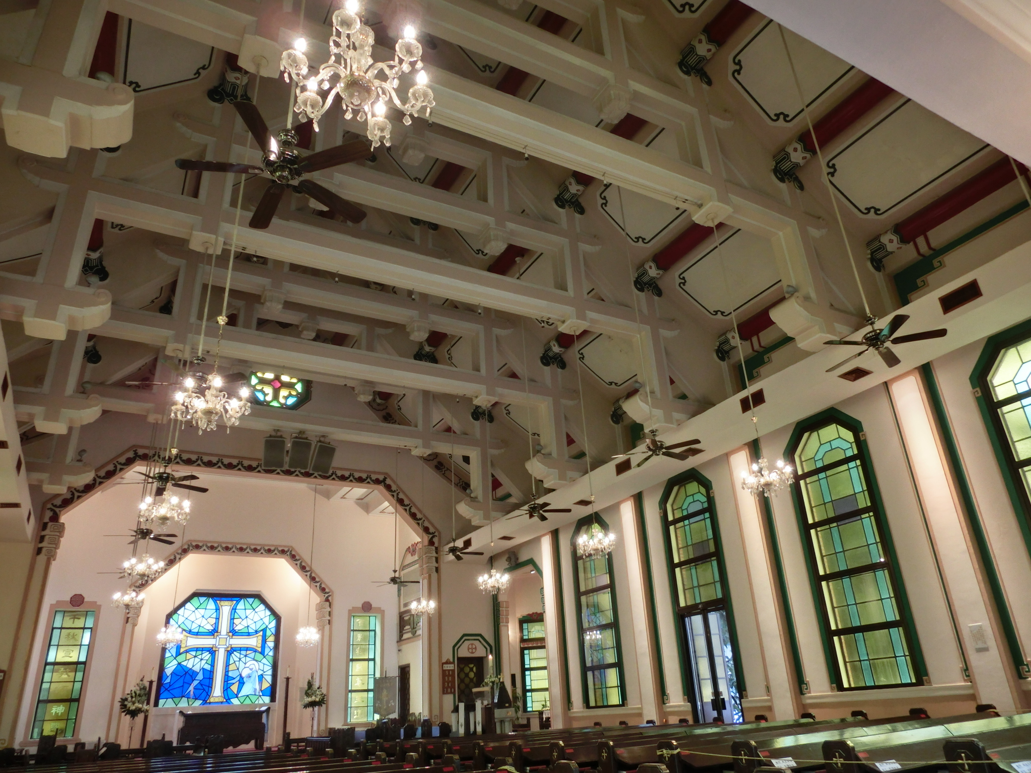 聖馬利亞堂, St. Mary's Church, Tung Lo Wan Road, Hong Kong